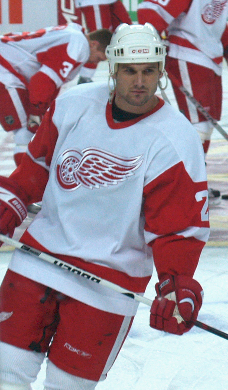 Brett Lebda of the Detroit Red Wings in Calgary, Alberta, November 17, 2006